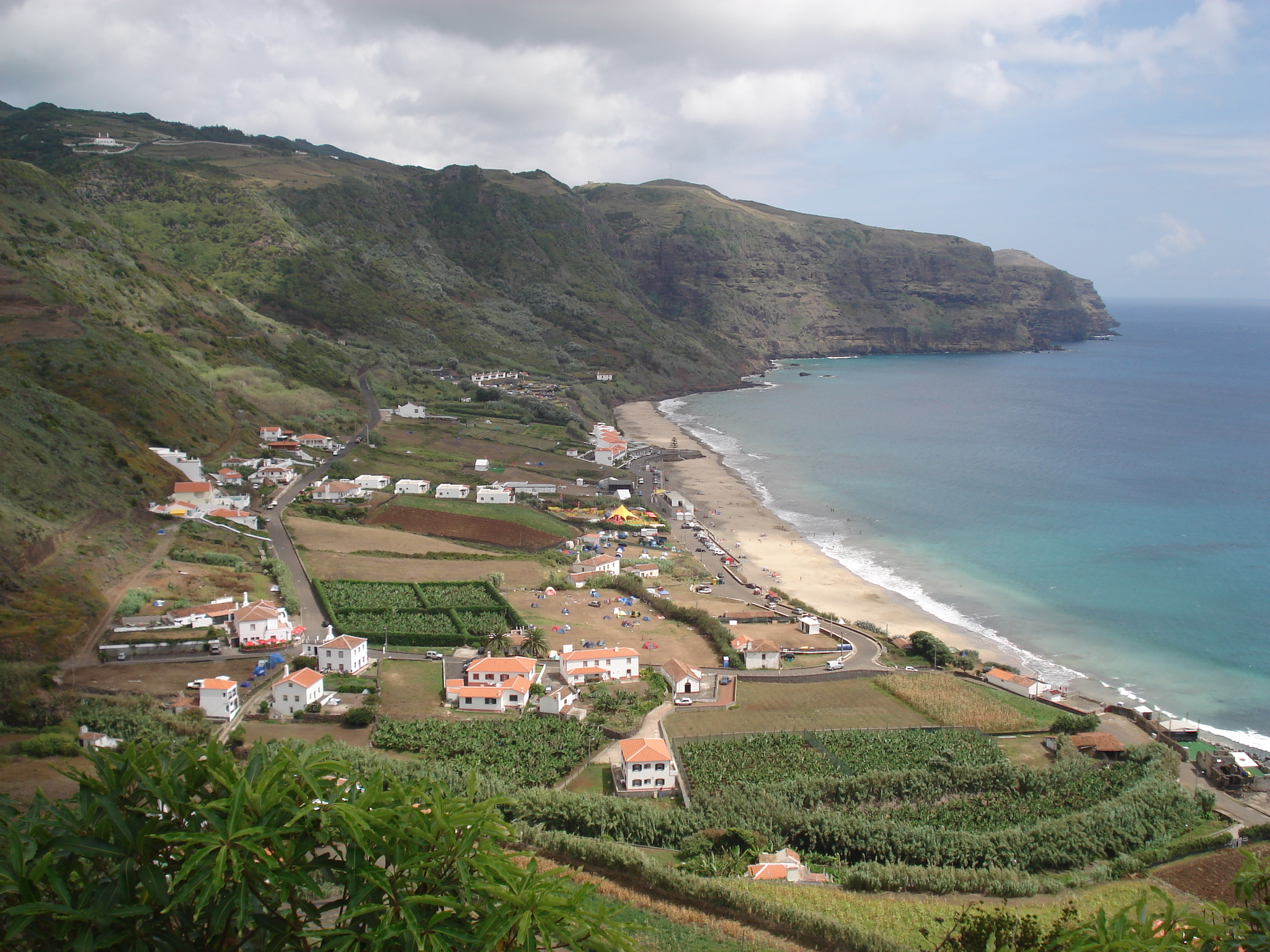 The village of Praia Formosa, in the parish of Albergaria, Santa Maria Island, Azores